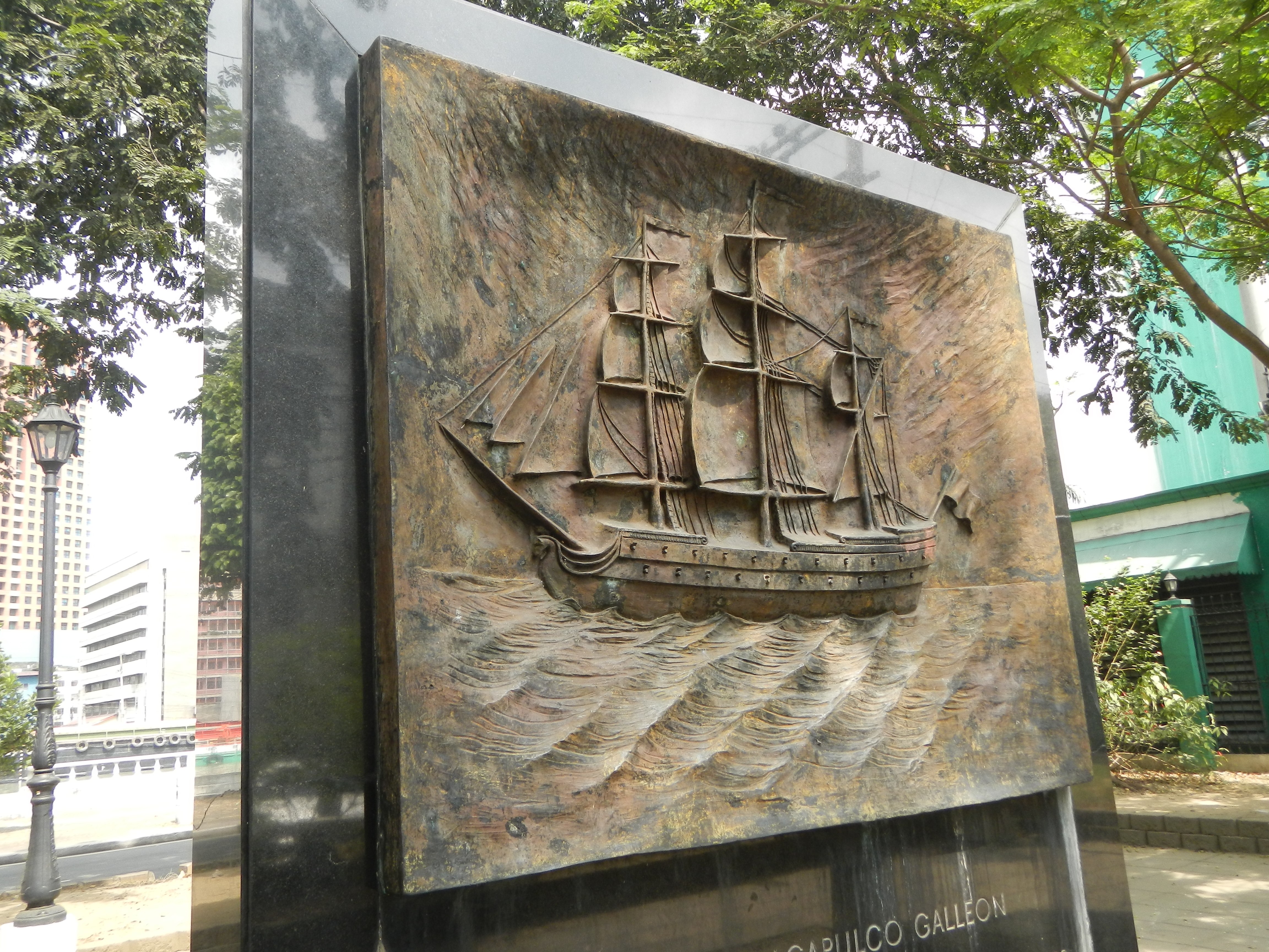 The Manila-Acapulco Galleon [1] located inside the walls of Intramuros, Manila, Plaza Mexico is an area near Aduana and the Pasig River with view of Santa Cruz Bridge, Santa Cruz, Manila and Escolta Street commemorates the historic galleon trade of Mexico and the Philippines along with the 400 years of maritime expedition of the country Fraternidad Ibero-Americana Filipina 1564-1964.